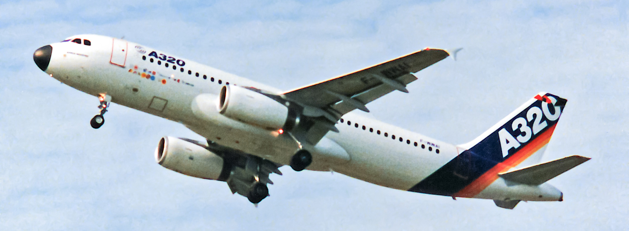 Although it's the original A320-100 prototype, it had been fitted with -200 winglets.